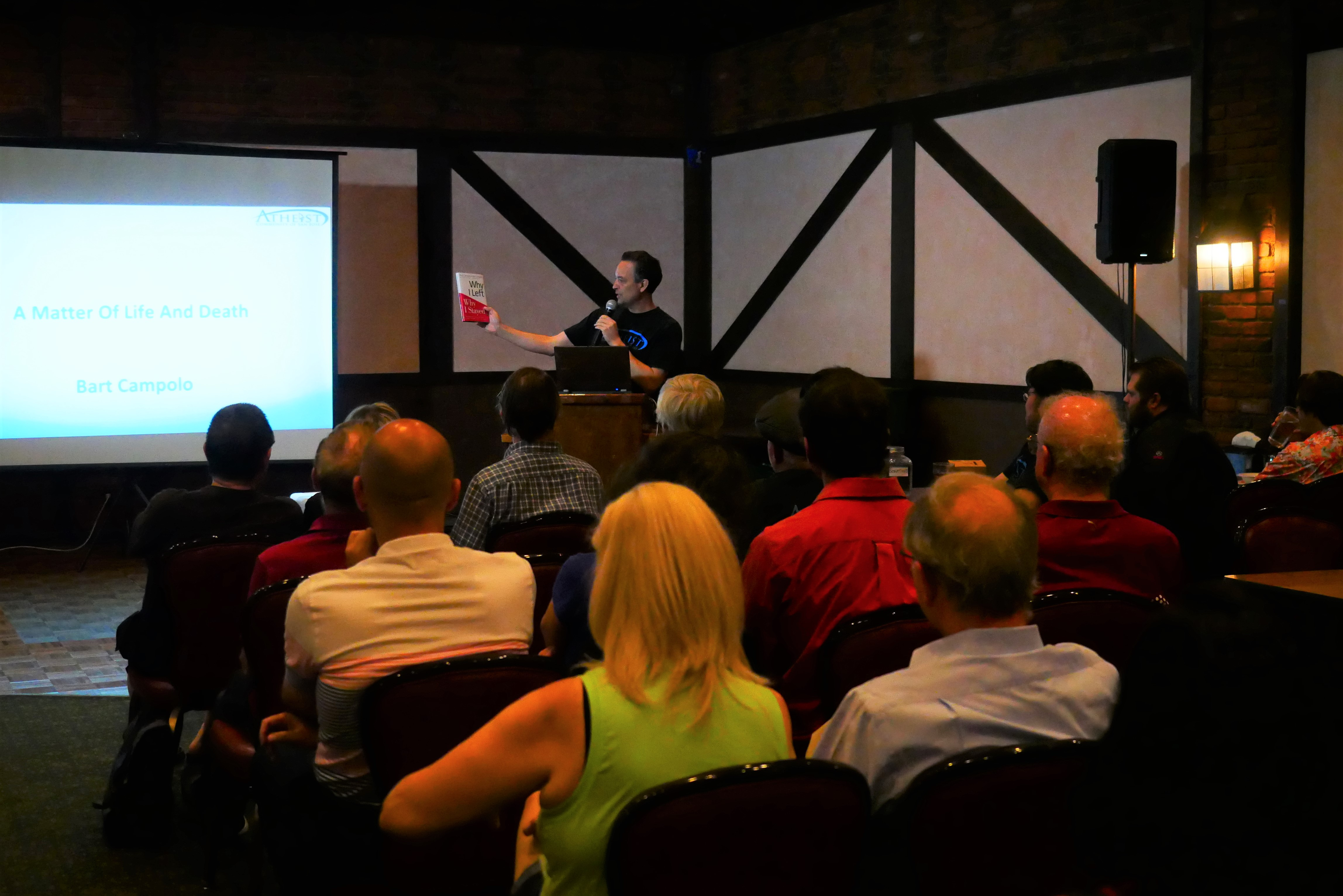 Lecture to the Atheist Community of San Jose. Lecture titled "A Matter of Life and Death"